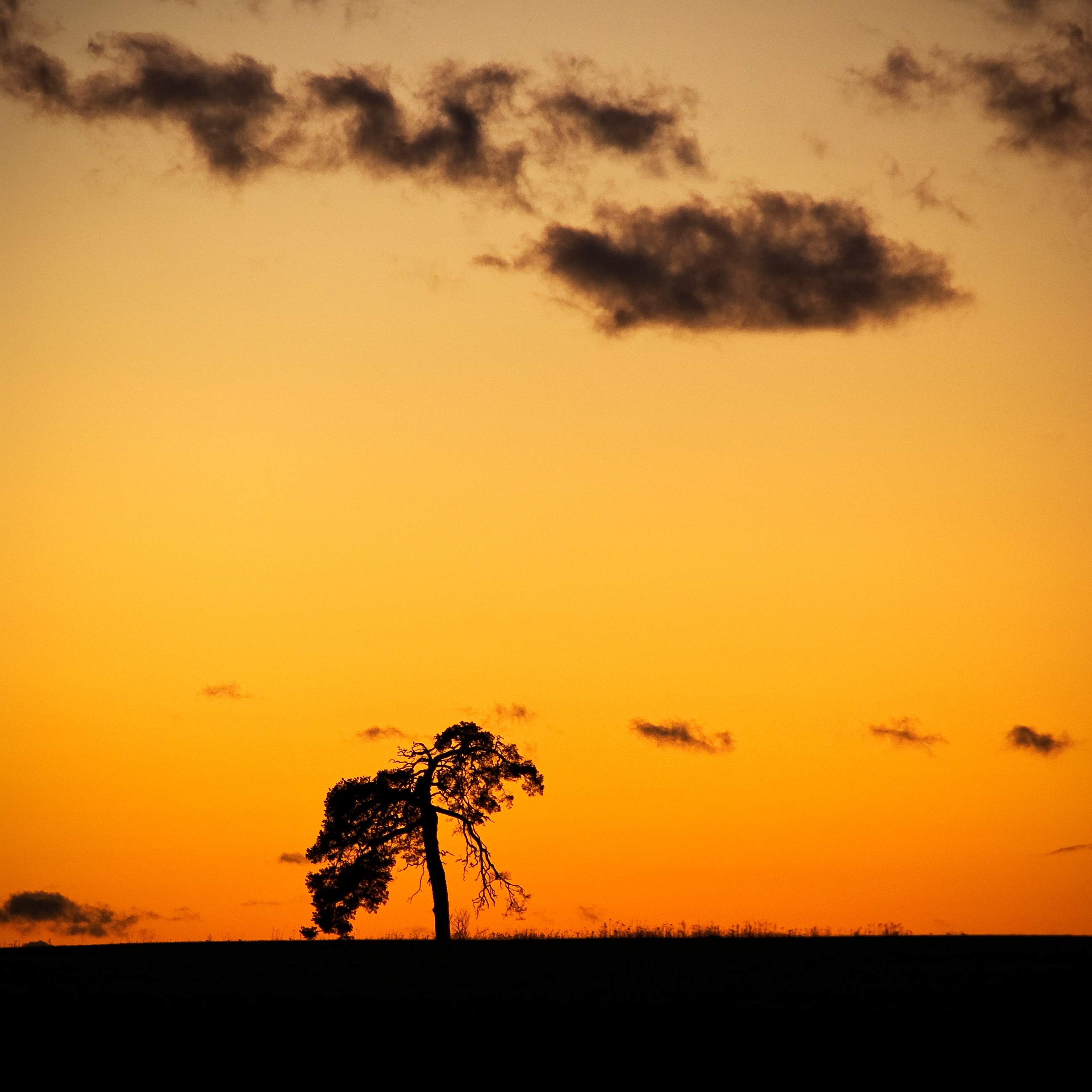 Tiidu pine